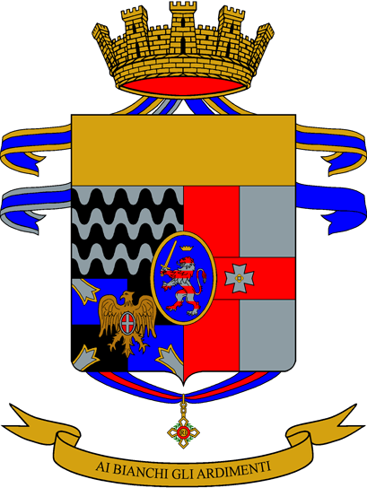 Coat of Arms of the 9° Infantry Regiment; Italian Army.